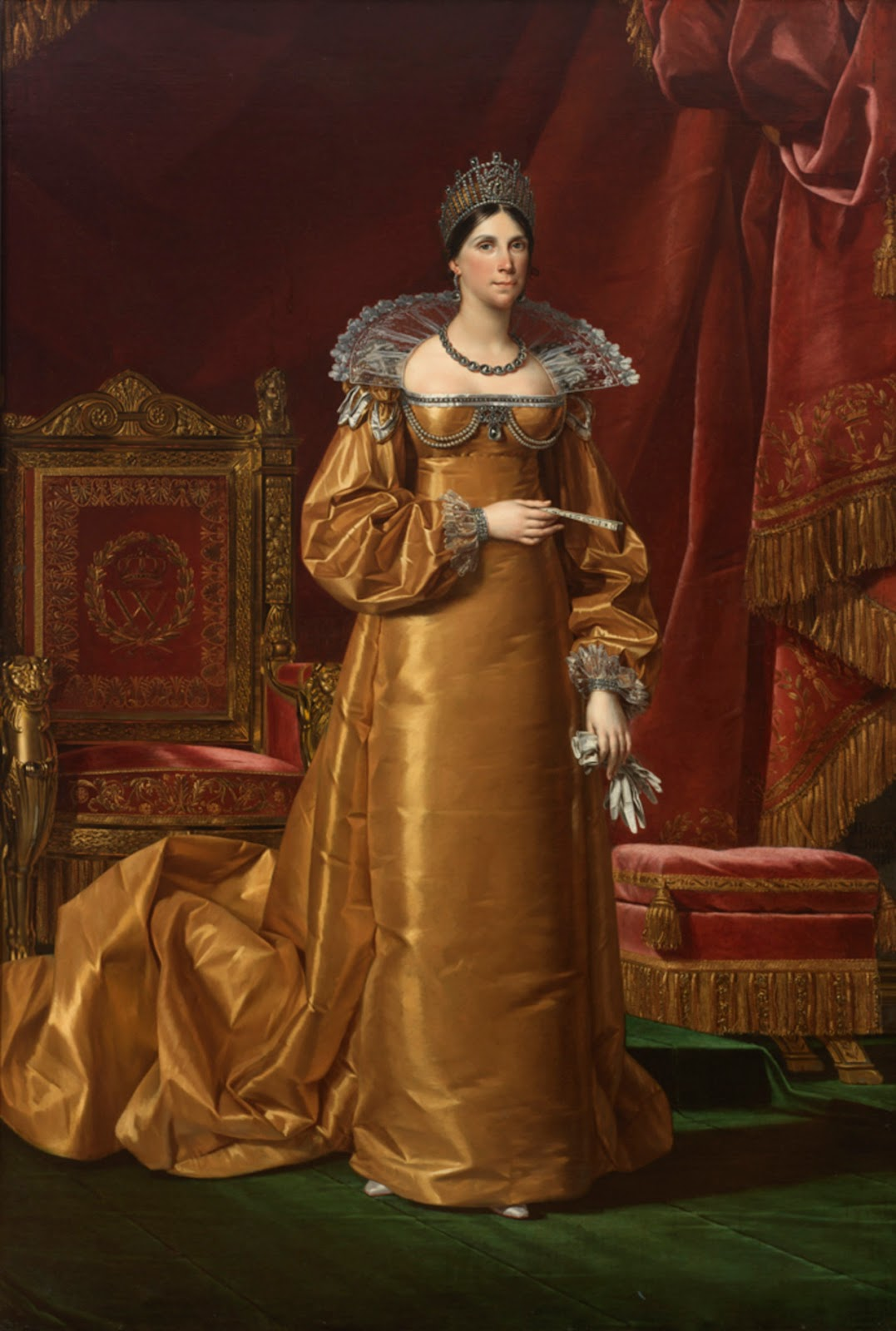 Frederica Wilhelmina (1774 – 1837), Queen of the Netherlands